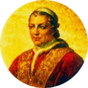 Portait of Pope Pius IX in the Basilica of Saint Paul Outside the Walls, Rome